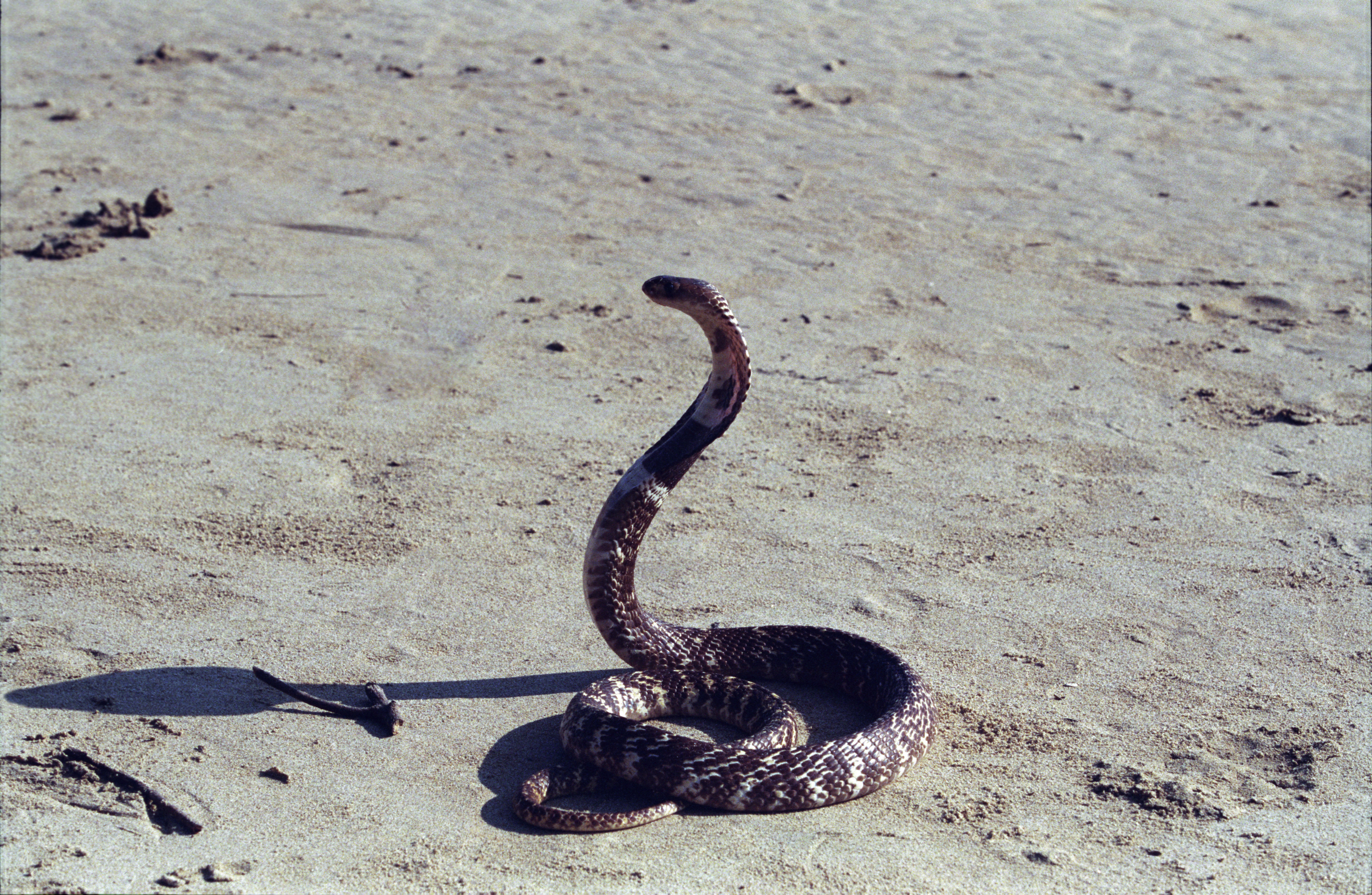 Cobra, Naja naja